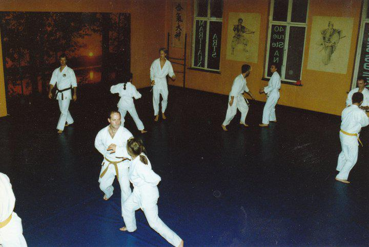 Royal School of Martial Arts Yama Arashi, course directed by Gilles de Muyser, 2nd dan of karate wadō-ryū.